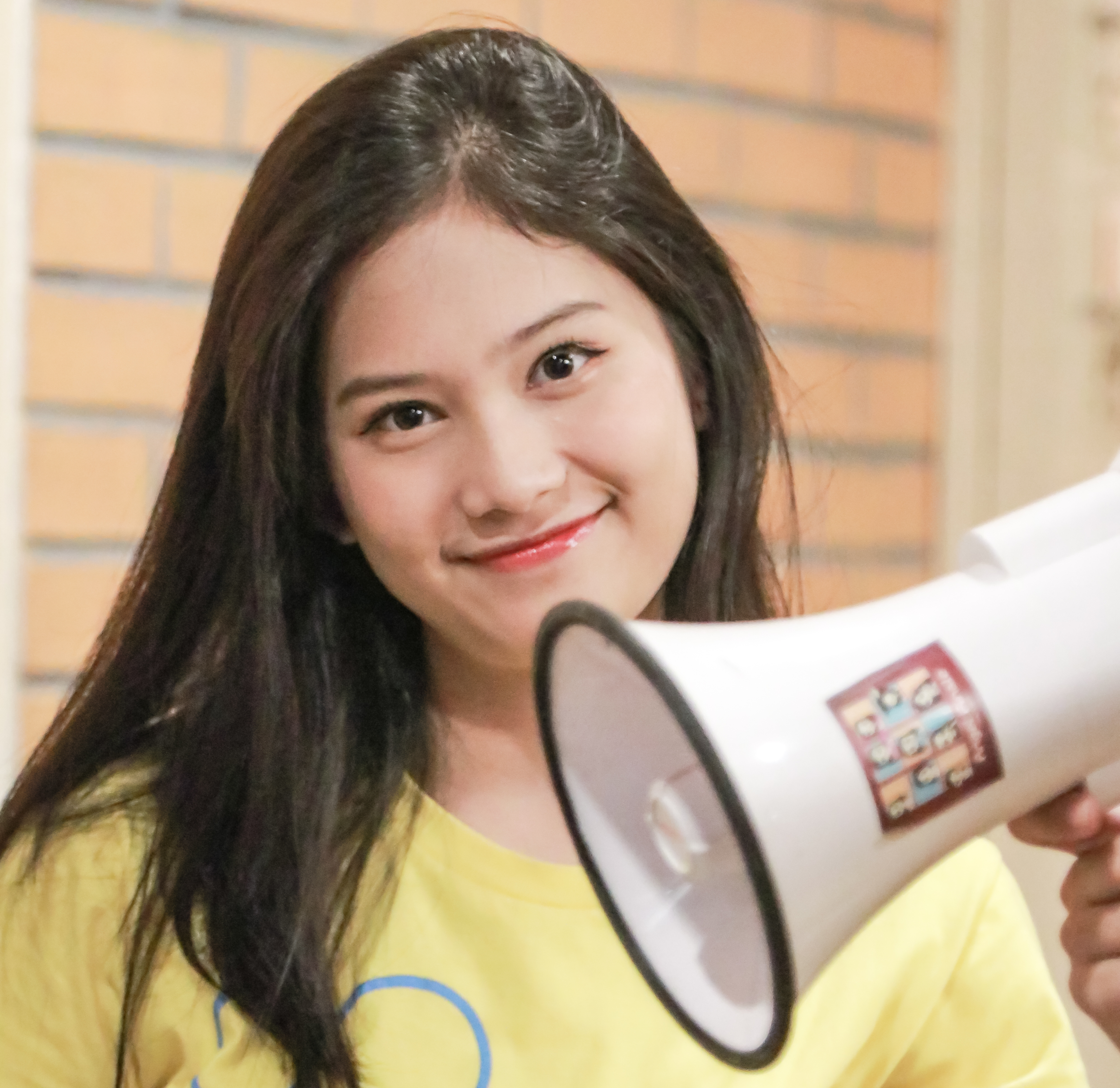 Yessica Tamara on 4 February 2020